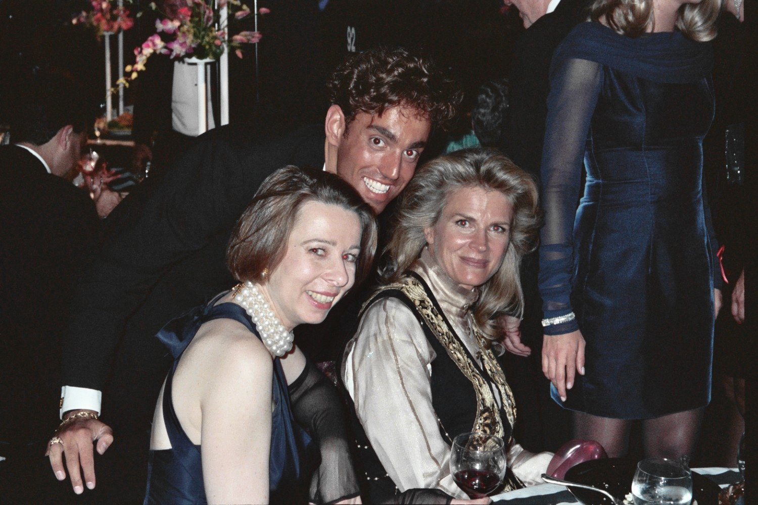 "Murphy Brown" creator Diane English and Candice Bergen, with Jim, at the Governor's Ball following the 1991 Emmy Awards. NOTE: Permission granted to copy, publish, broadcast or post any of my photos, but please credit "photo by Alan Light" if you can. Thanks. Scanned from the original 35MM film negative.